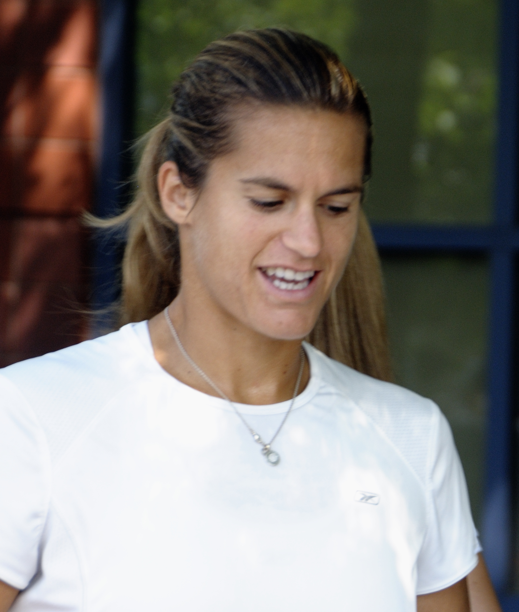 Amélie Mauresmo at the 2009 US Open